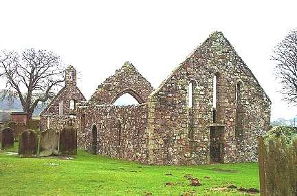 Buittle Old Kirk. This old church is in the same grounds as the new Church.